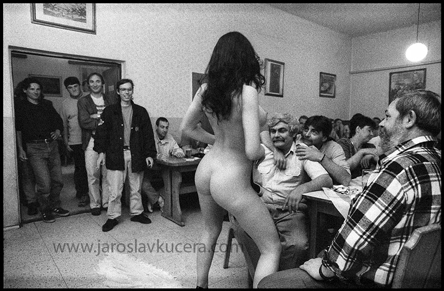 naked female posing in front of a group of men ANDREA